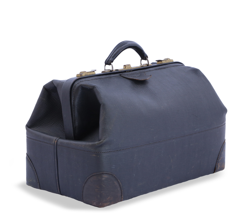 Belber grained leather Doctor Bag featured in 1915 catalogue